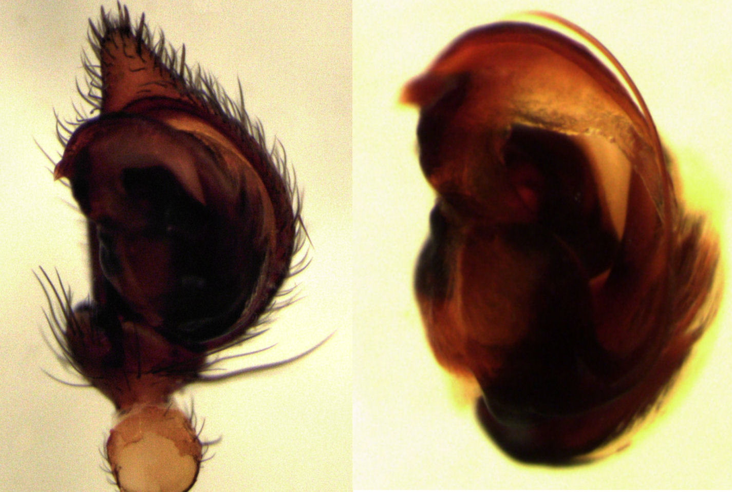 Forsterella faceta (male palp)